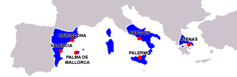 Anachronous map of the Aragonese Empire.